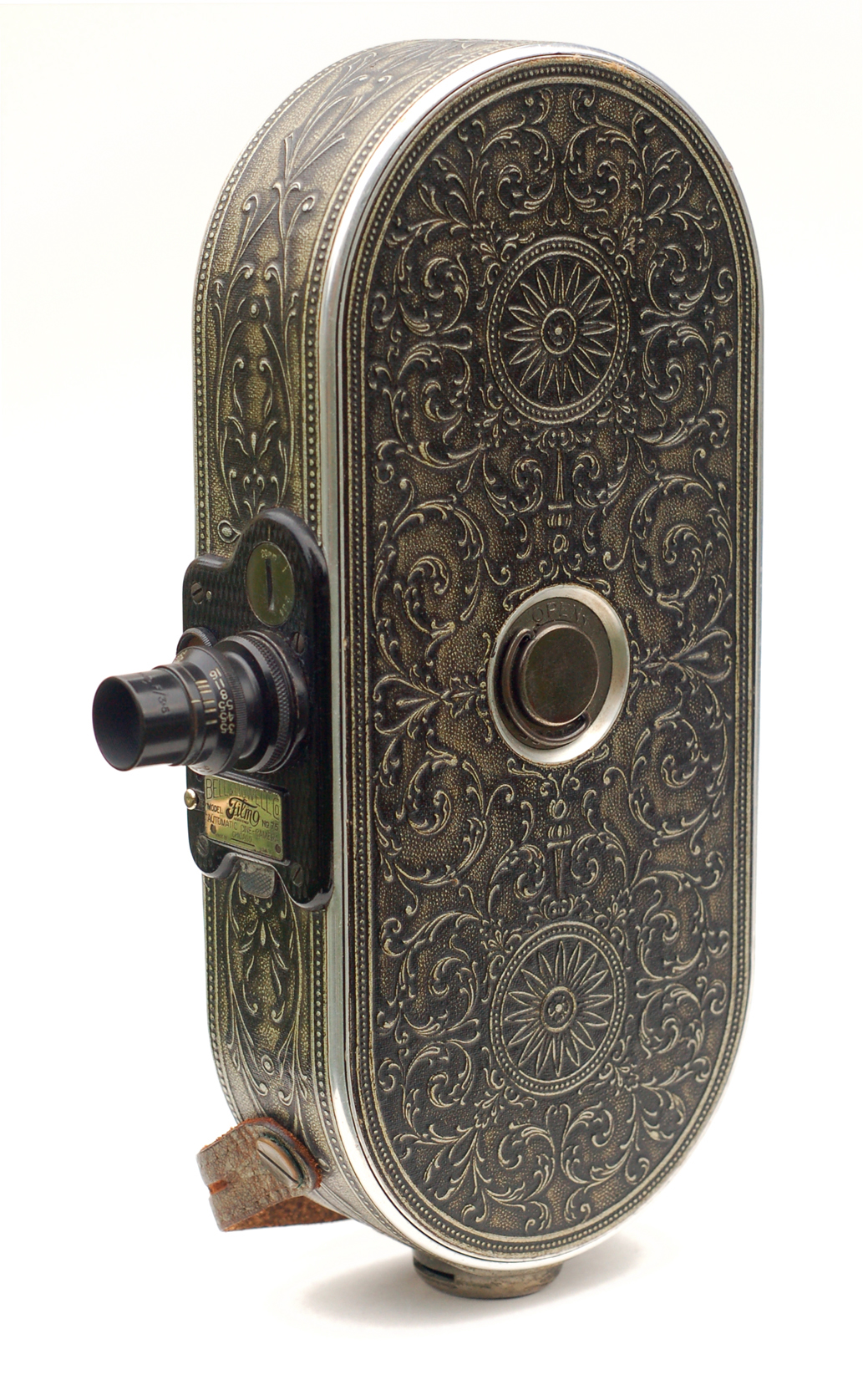 From Flickr: The beautiful Filmo 75 is a 16mm movie camera, produced in Chicago beginning in 1928. It was intended for amateur use, but the quality of its construction makes it easy to see why Bell & Howell cameras were the tools of choice for Hollywood studios in the early days of motion pictures. Although rather heavy by today's standards, the 75 was quite compact for its time, and was marketed as a ladies' camera. Its ornate leather covering was available in Walnut Brown, Ebony Black, and Silver Birch (seen here). Truly a work of art.